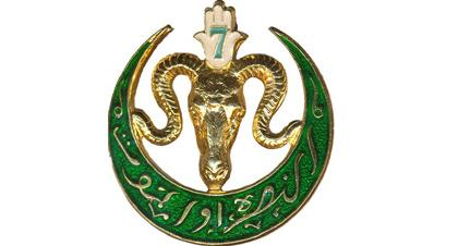 Regimental badge of the 7th regiment of Algerian sharpshooters.